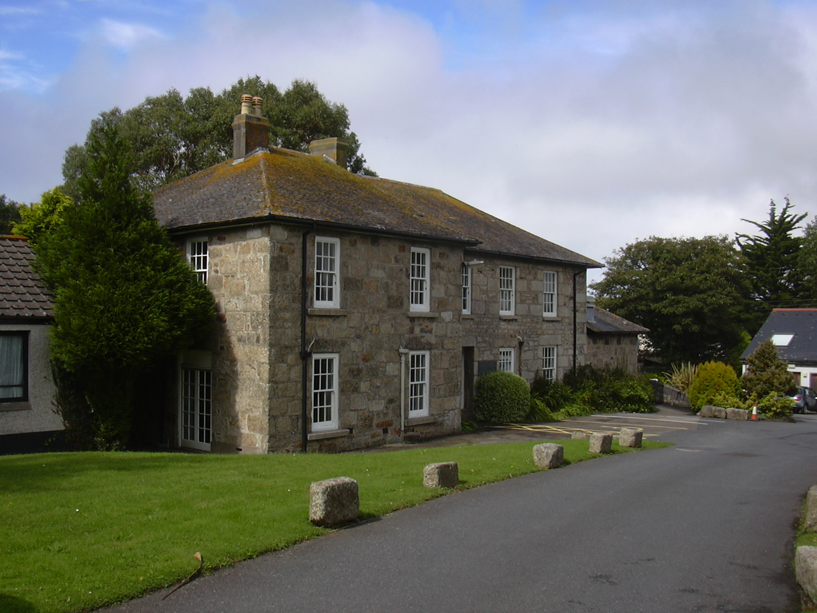 Home of the Jenners in Hayle, Cornwall (now within the ground of St. Michael's Hospital).